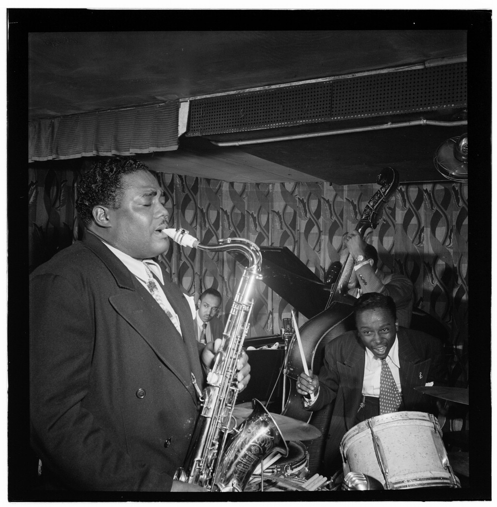 John Hardee, famous Door, NYC, ca. July 1947. Photograph by William P. Gotlieb